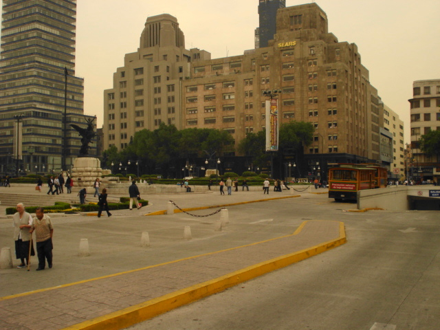 Building of Nacional, Mexico City.